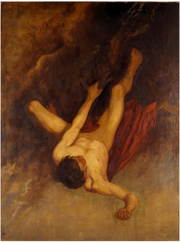 The fall of Phaeton